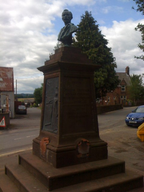 Monument to Joseph Thomson, African Explorer